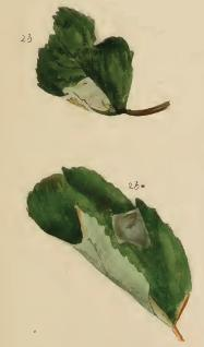 Stainton’s Natural History of the Tineina (1855–1873): Parornix petiolella - apple leaf with mine of young larva (2b); another apple leaf with a mine of a young larva, and with its lower parts drawn together by a web spun by the adult larva near the petiole